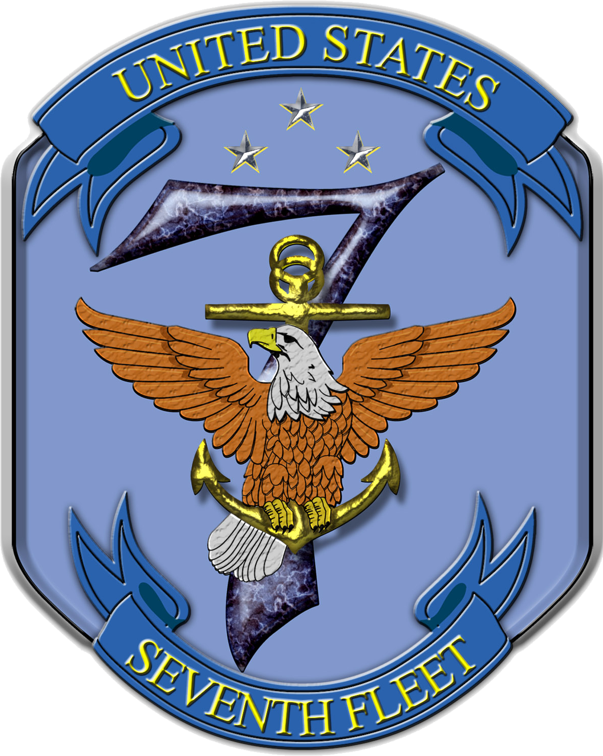 Insignia of the United States Seventh Fleet.